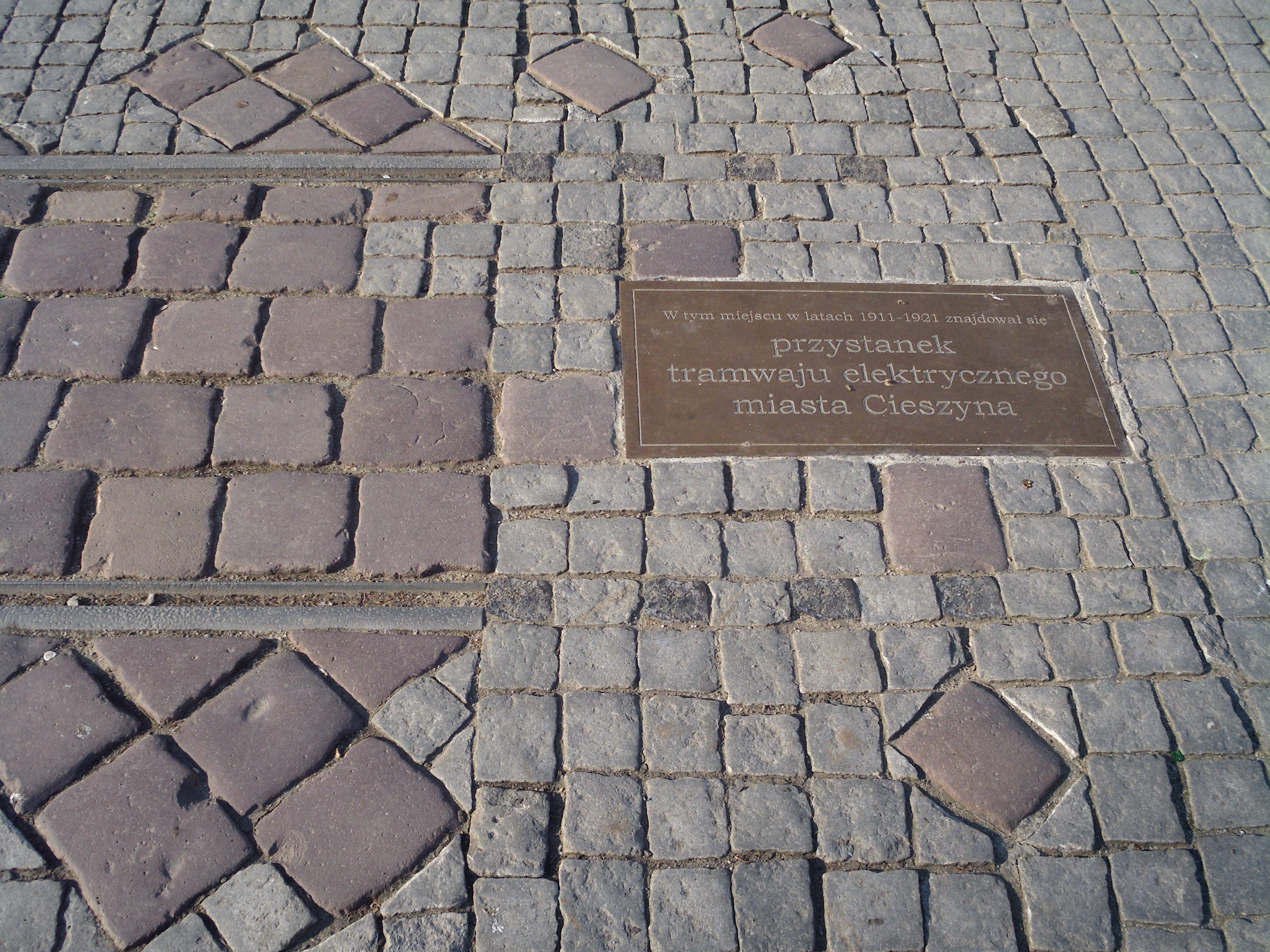 A memorial plaque at the main square of Cieszyn, commemorating a tram line that operated from 1911 till 1921.